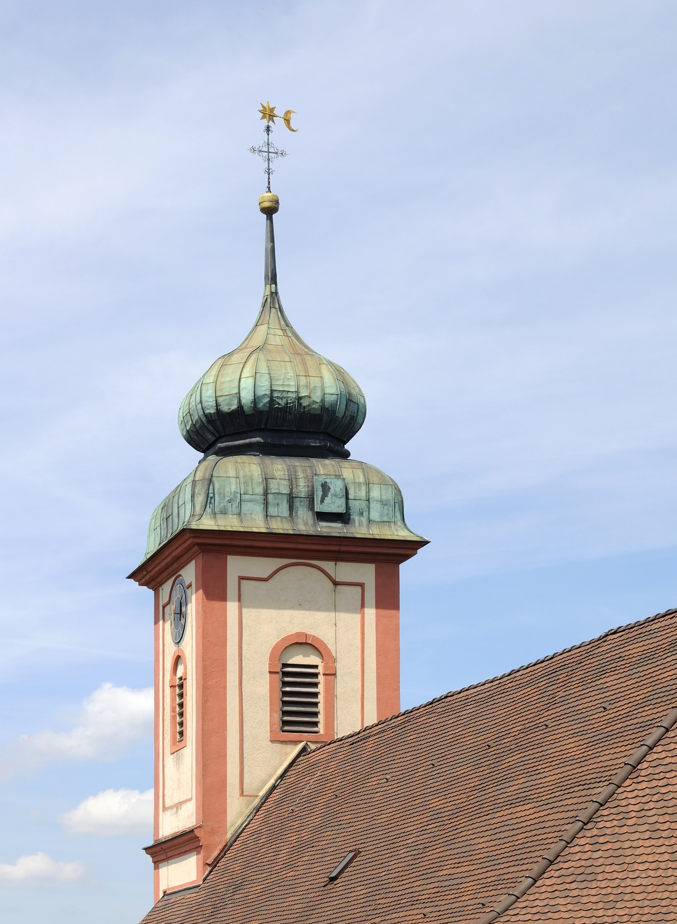 Bad Bellingen: Saint Leodegar Church